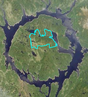 Louis-Babel Ecological Reserve